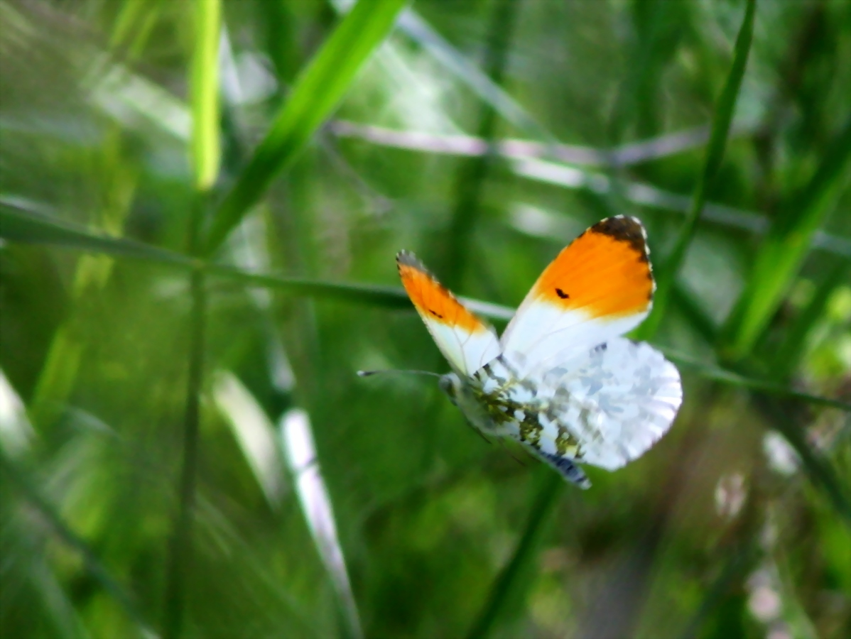 Anthocharis cardamines - Aurorafalter - Toscana, Lucignano d'Asso - 16.05.2005